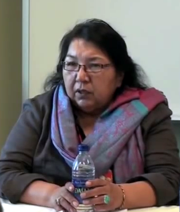 Beverley Hungry Wolf cropped from vid of I'POYI Aboriginal Writers Gathering, University of Calgary, March 27, 2009. Panel on productive tensions within Aboriginal writing in Canada. Panelists: Lee Maracle, Sharron Proulx-Turner, Gregory Scofield, Beverly Hungry Wolf, and Joane Cardinal-Schubert